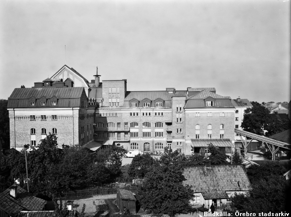 Örebro mill, Sweden